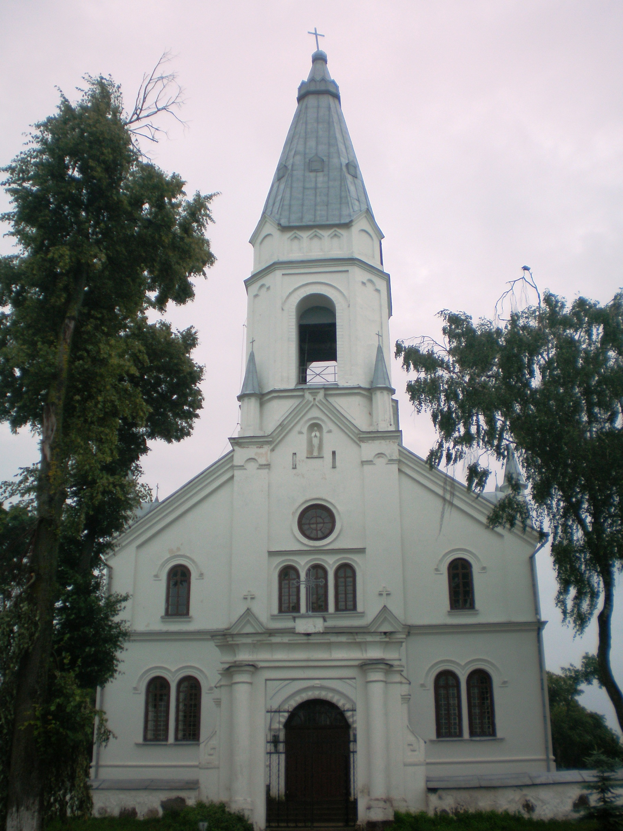 Church of Šėta, Lithuania